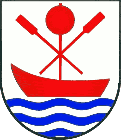 Coat of arms of the municipality Fahrdorf in Schleswig-Holstein, Germany.